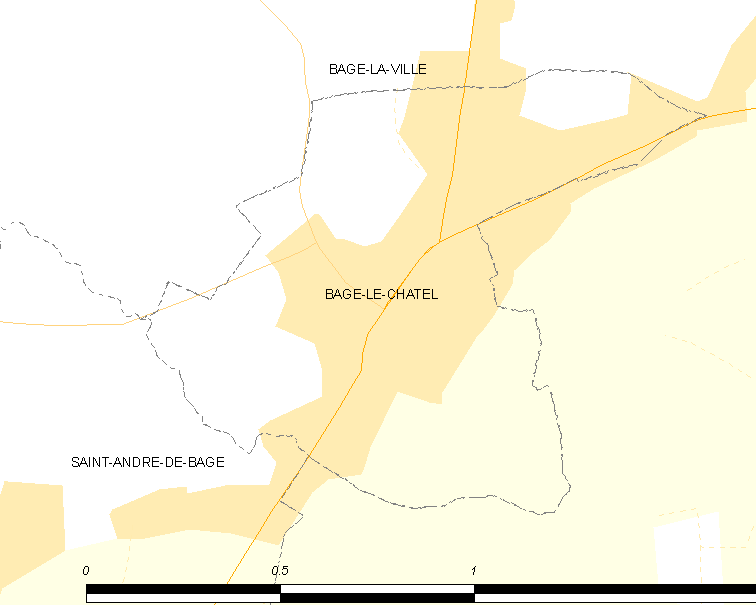 Map of French commune: Bâgé-le-Châtel Map commune FR insee code 01026.png